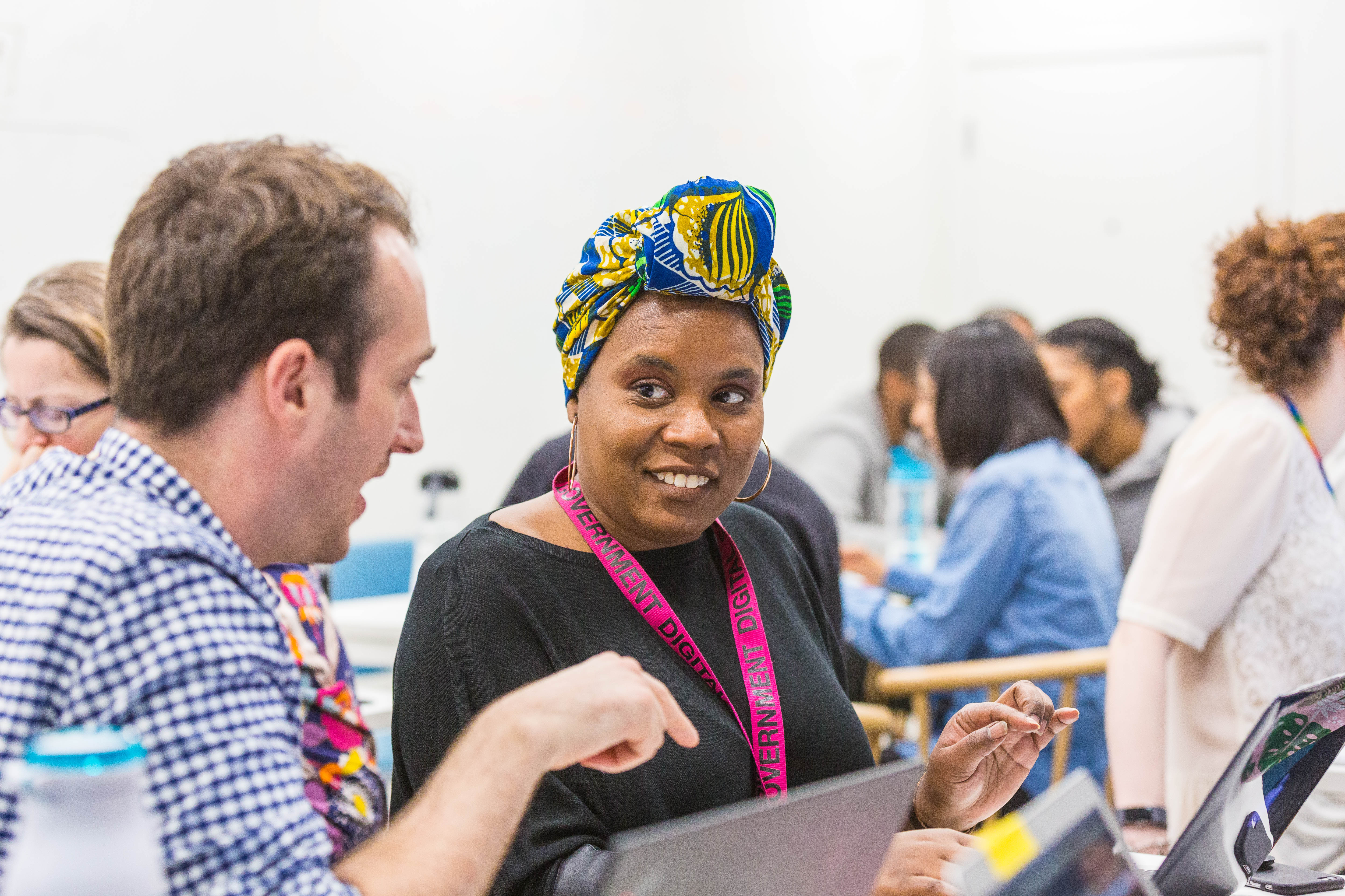 Woman learning to code in workshop.